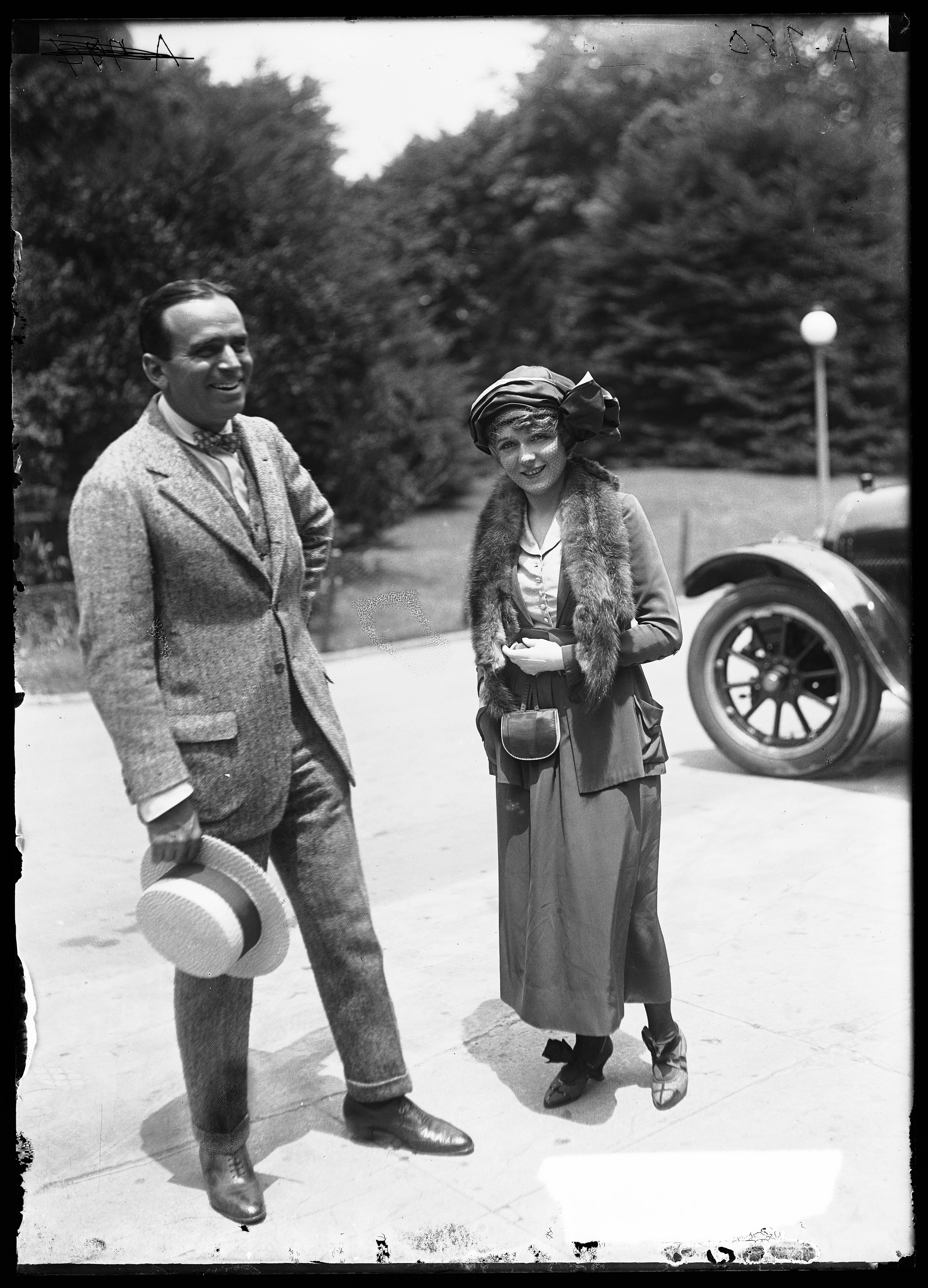 Douglas Fairbanks & Mary Pickford